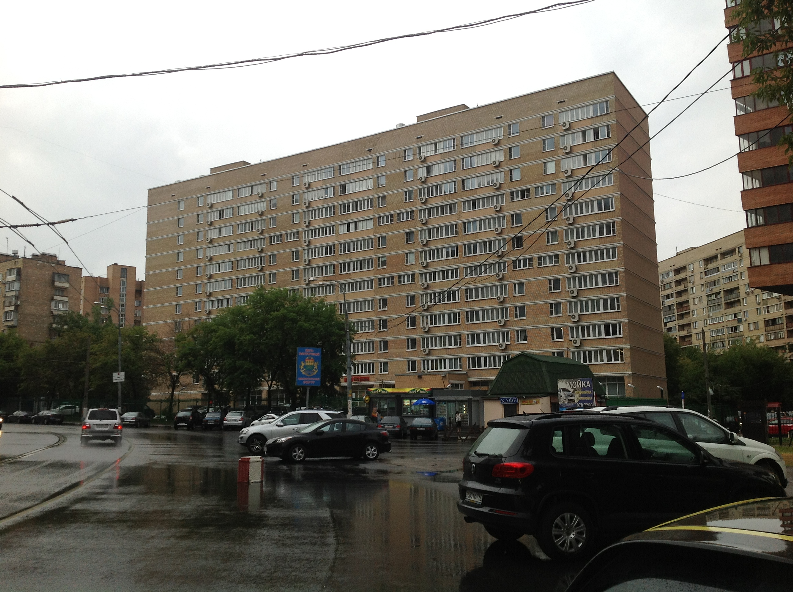 3, bld. 2 Krutitsky Val street, Moscow, Russia. Former Embassy of Mozambique.